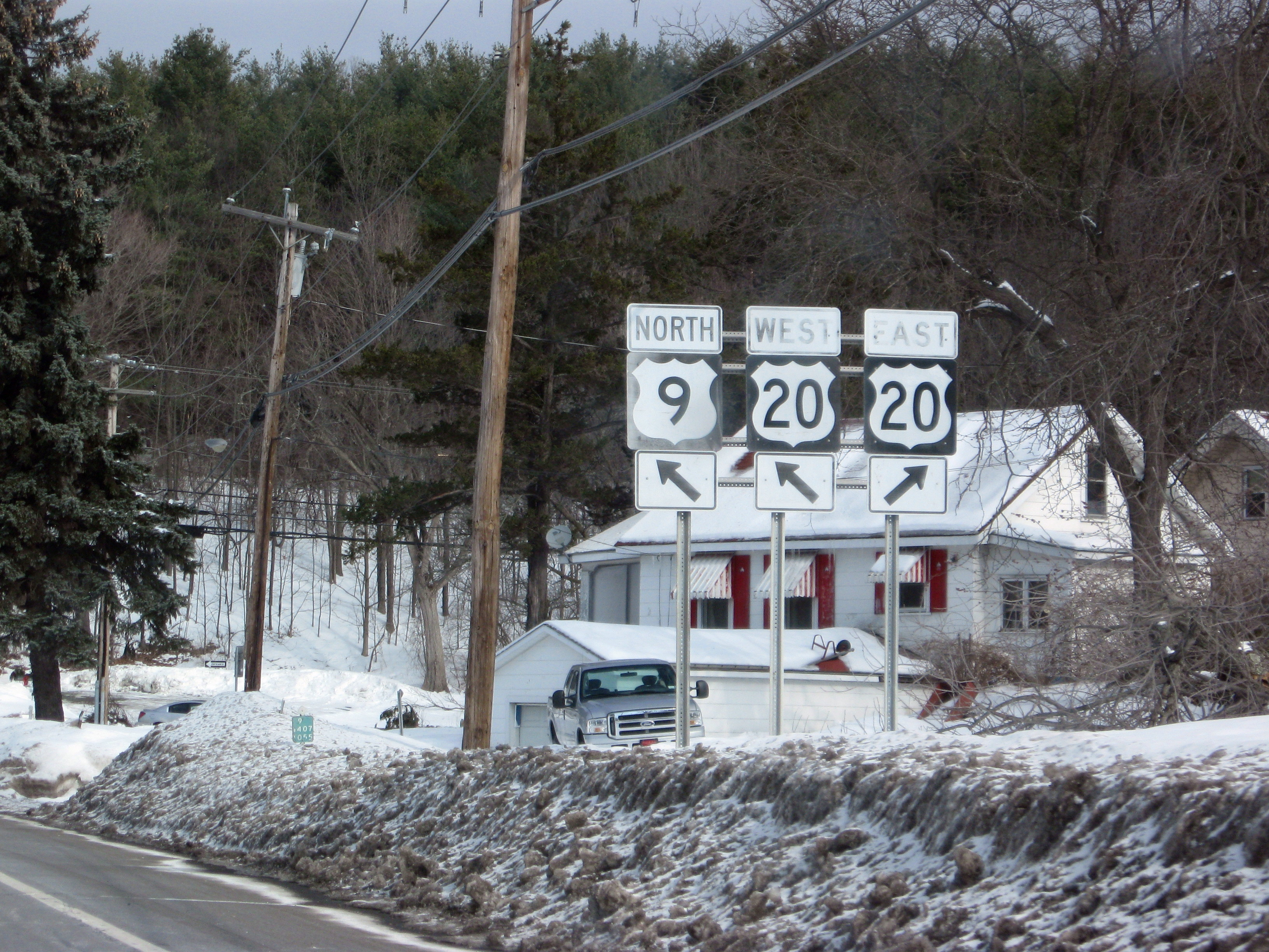 The merger of US 20 and US 9 in Schodack, New York.